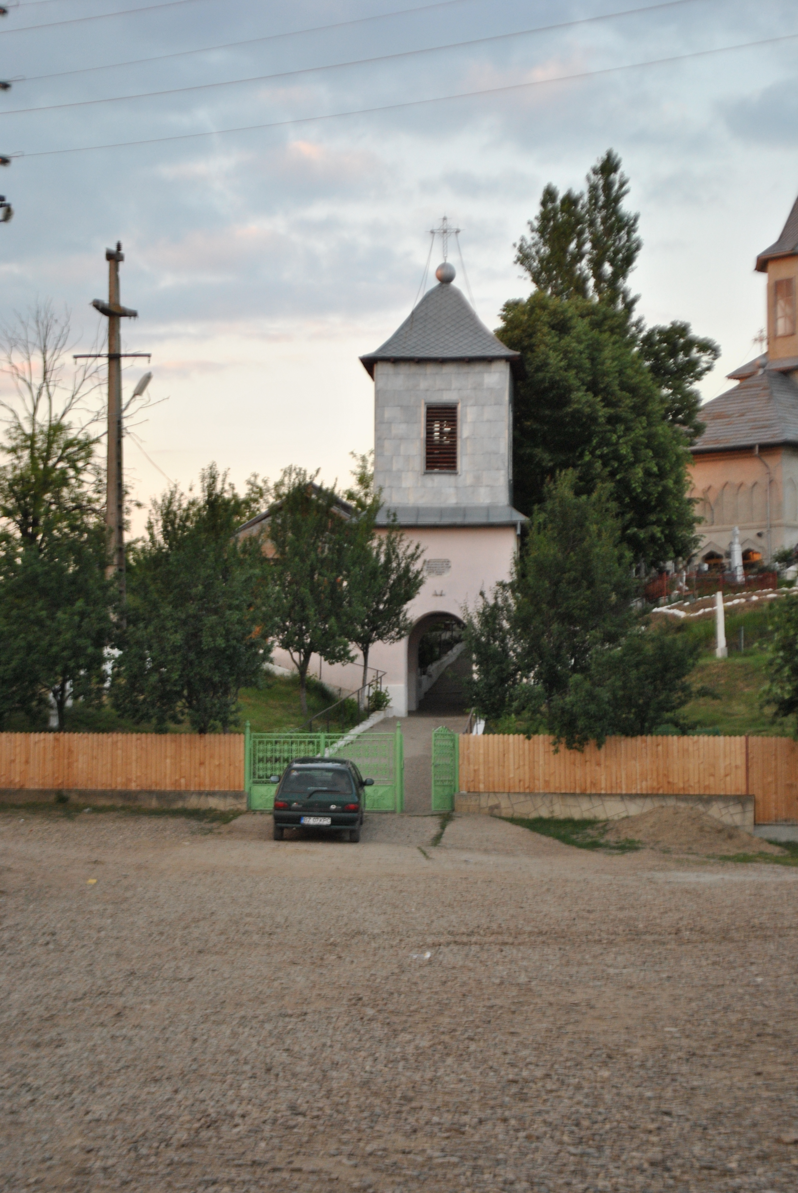 Belfry of Saints Constantine and Helena church in Măteşti, Săpoca commune, Buzău County, RomaniaRomână: Clopotniţa bisericii Sfinţii Constantin şi Elena din Măteşti, comuna Săpoca, judeţul Buzău, România 02